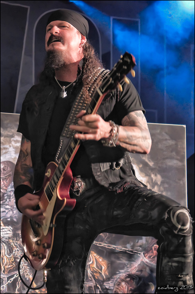 Jon Schaffer performing with Iced Earth, live Madrid 23/10/2013